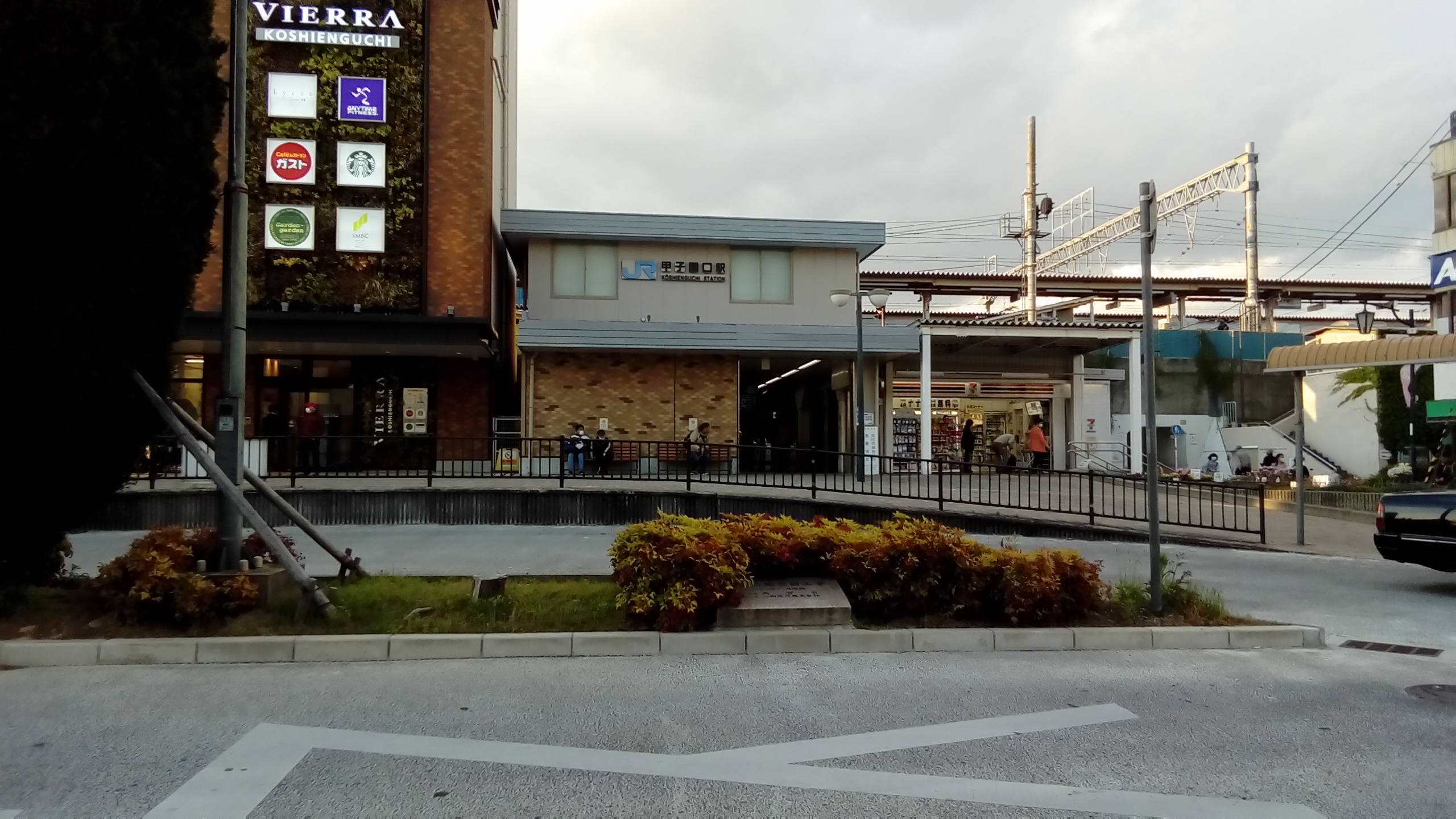 West Japan Railway, Tōkaidō Main Line, Kōshienguchi Station south entrance